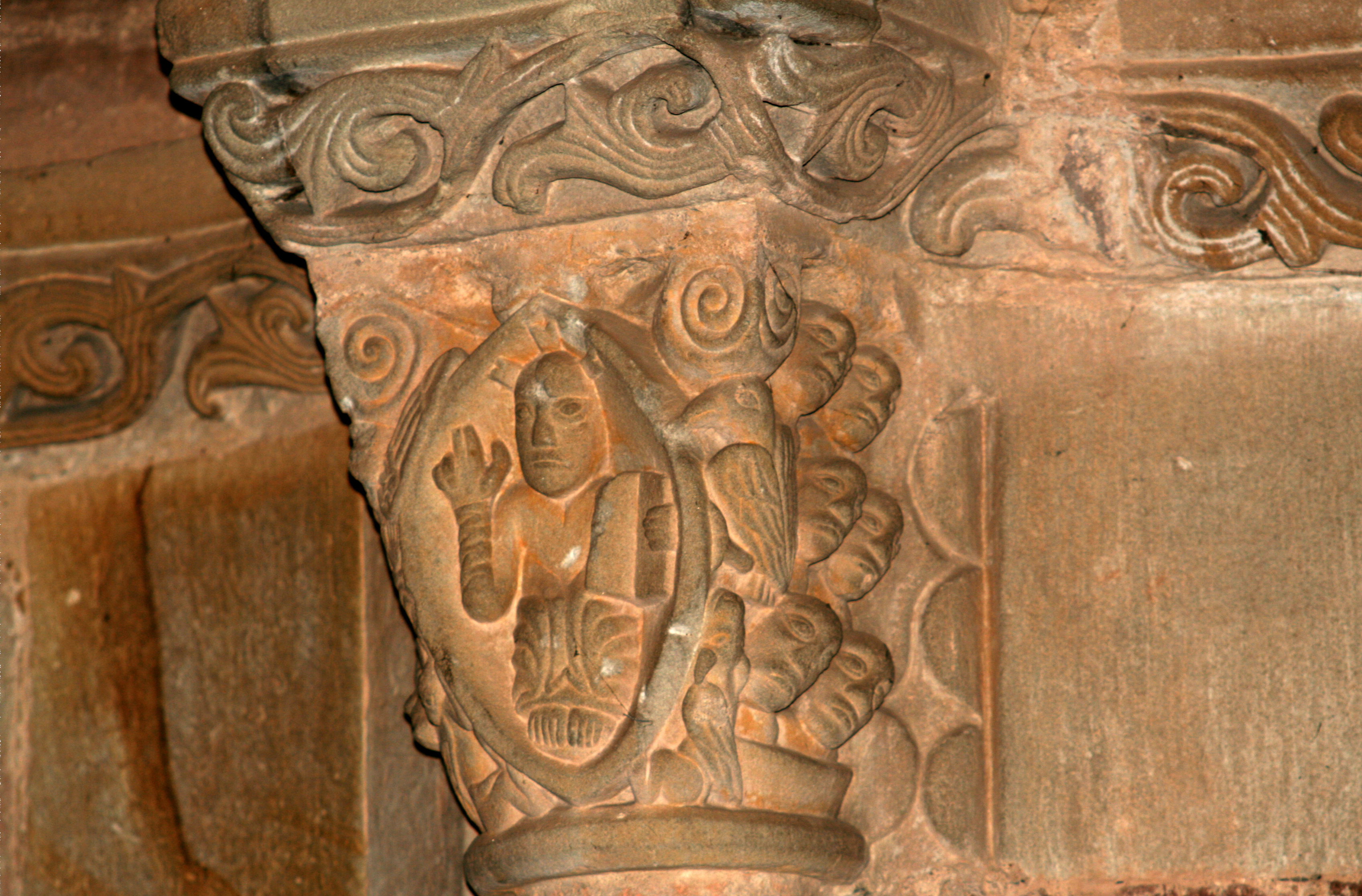 Capital at San Juan de Amandi, a 12th century Romanesque church in Villaviciosa (Asturias, Spain).